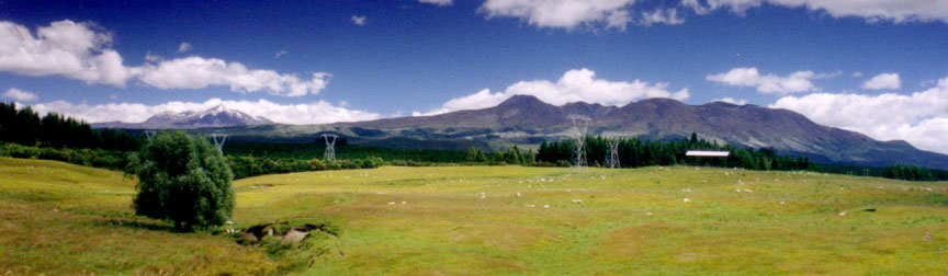 New Zealand's three active central North Island volcanoes, seen from the northwest. Snow-capped Ruapehu is to the left, the cone of Ngauruhoe is in the centre, and the broad dome of Tongariro is to the right.